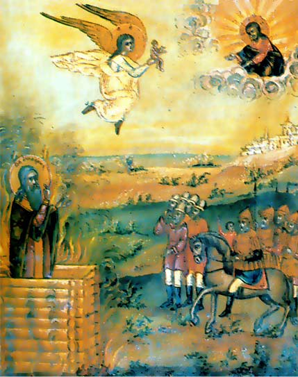 Death of Avvakum.